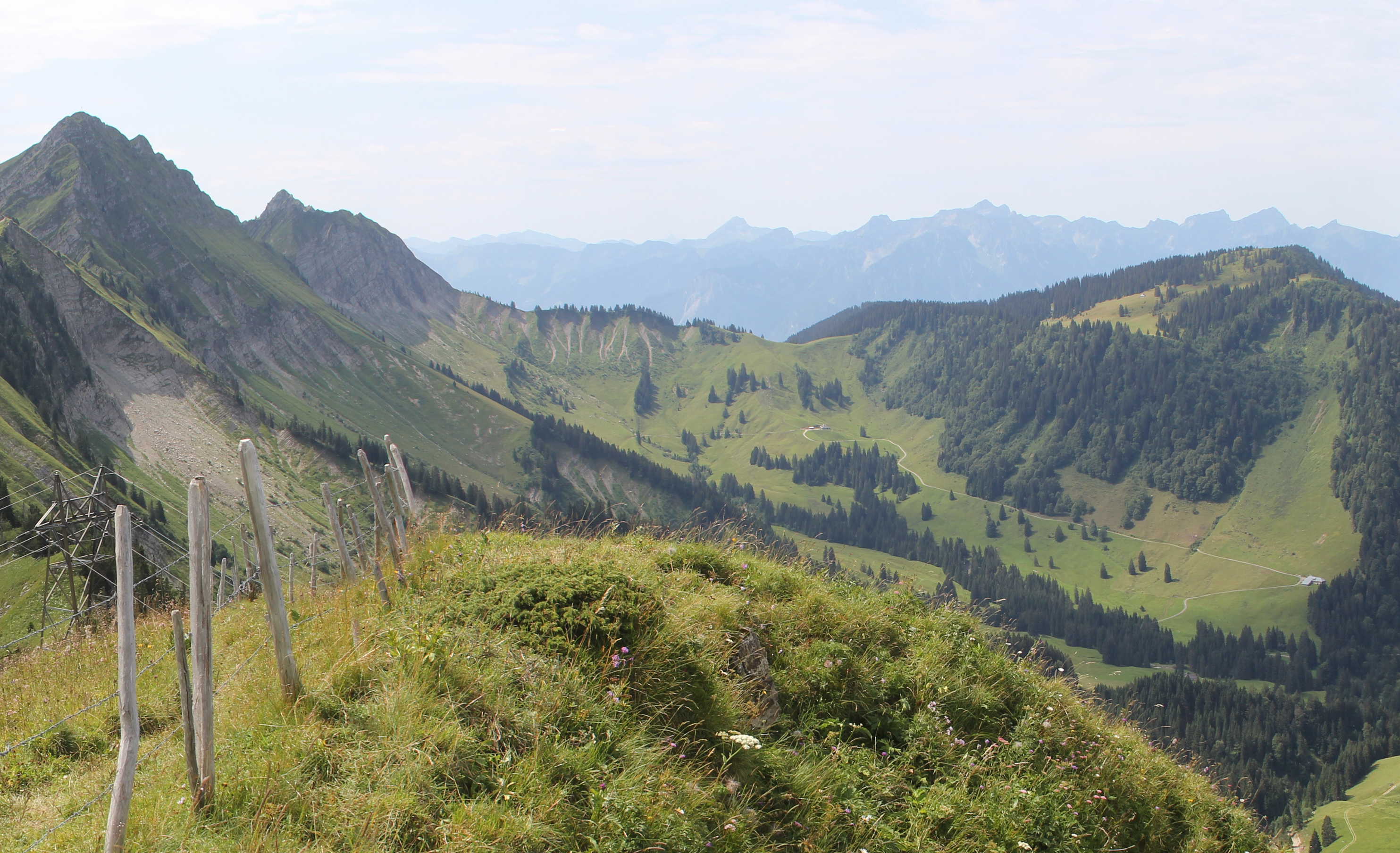 Panoramic view from the Col de Lys